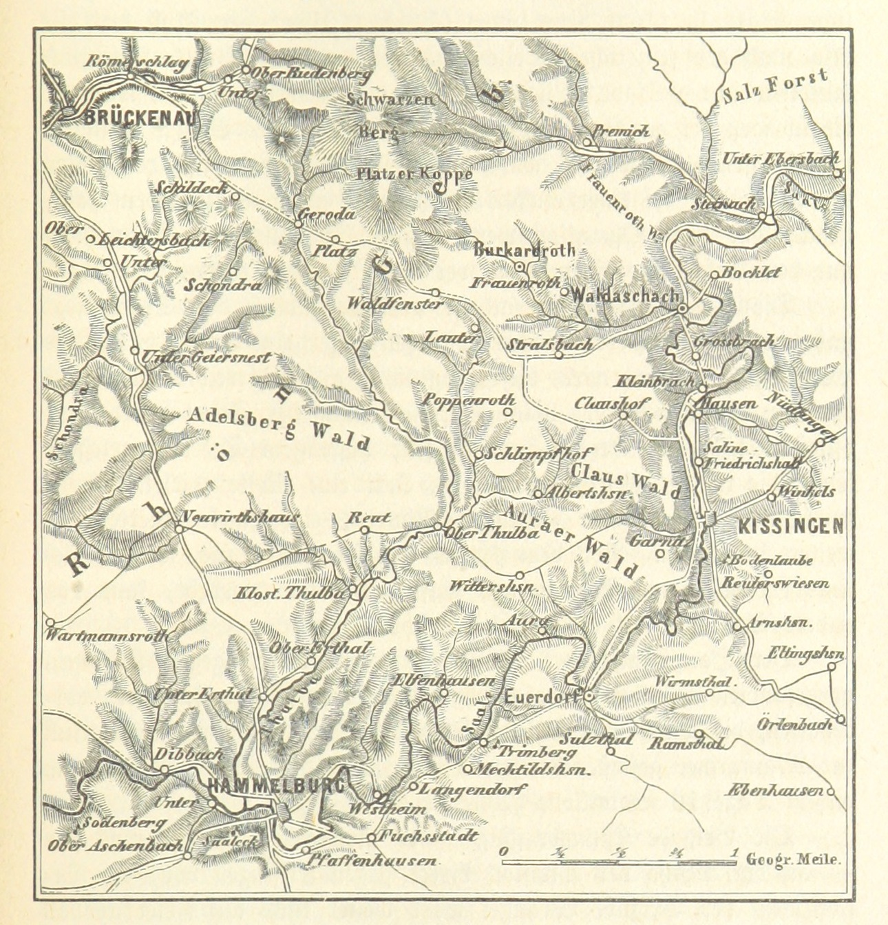 Image extracted from page 453 of Der deutsche Krieg von 1866. Historisch, politisch und kriegswissenschaftlich dargestellt ... Mit Karten und Plänen', by BLANKENBURG, Heinrich - Historical writer. Original held and digitised by the British Library. Copied from Flickr. Note: The colours, contrast and appearance of these illustrations are unlikely to be true to life. They are derived from scanned images that have been enhanced for machine interpretation and have been altered from their originals.